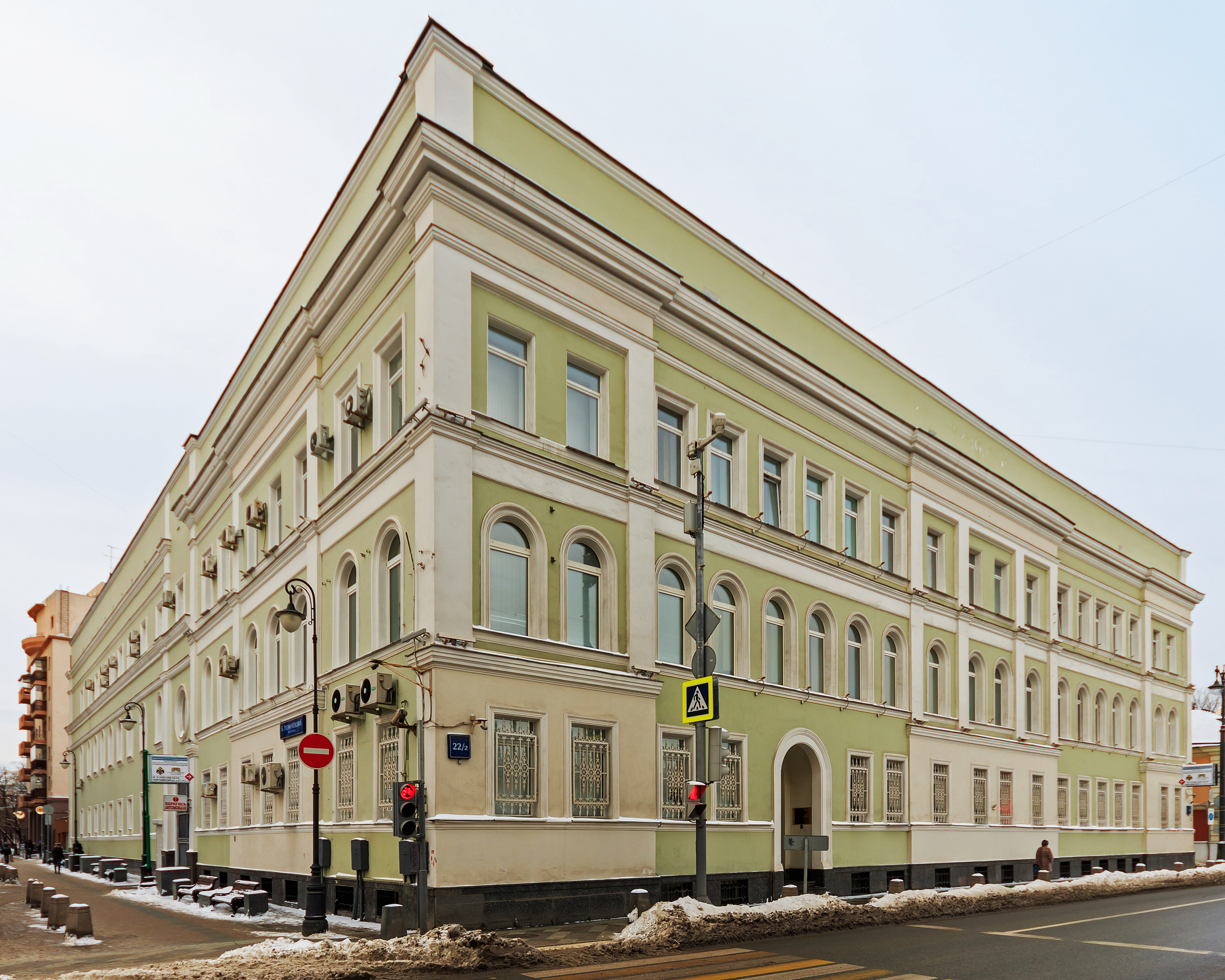 Bolshaya Ordynka Street / Bol. Tolmachevsky Lane in Moscow – Interstate Aviation Committee head office